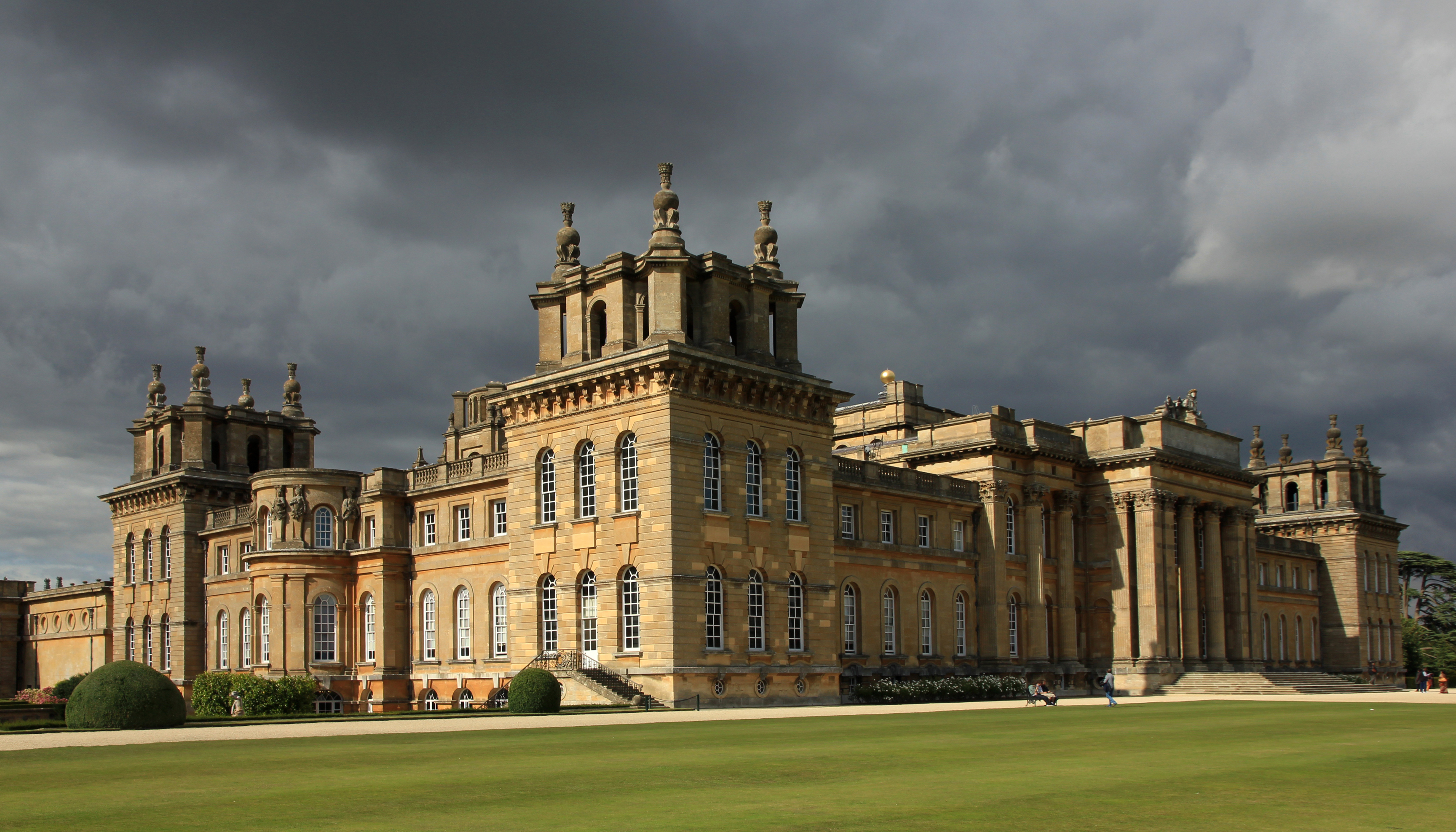 Blenheim Palace